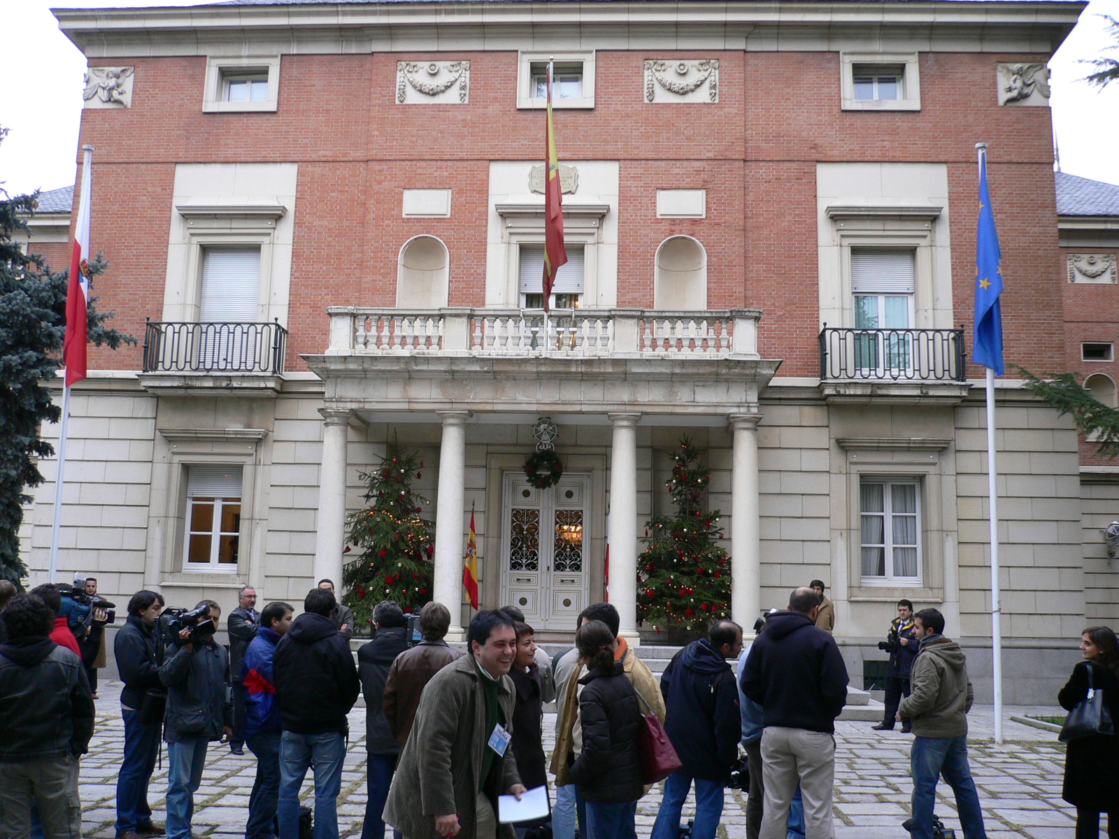 Spanish presidential Moncloa Palace. Public Building